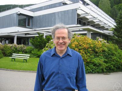 Leslie Valiant, British-American computer scientist, at Oberwolfach.